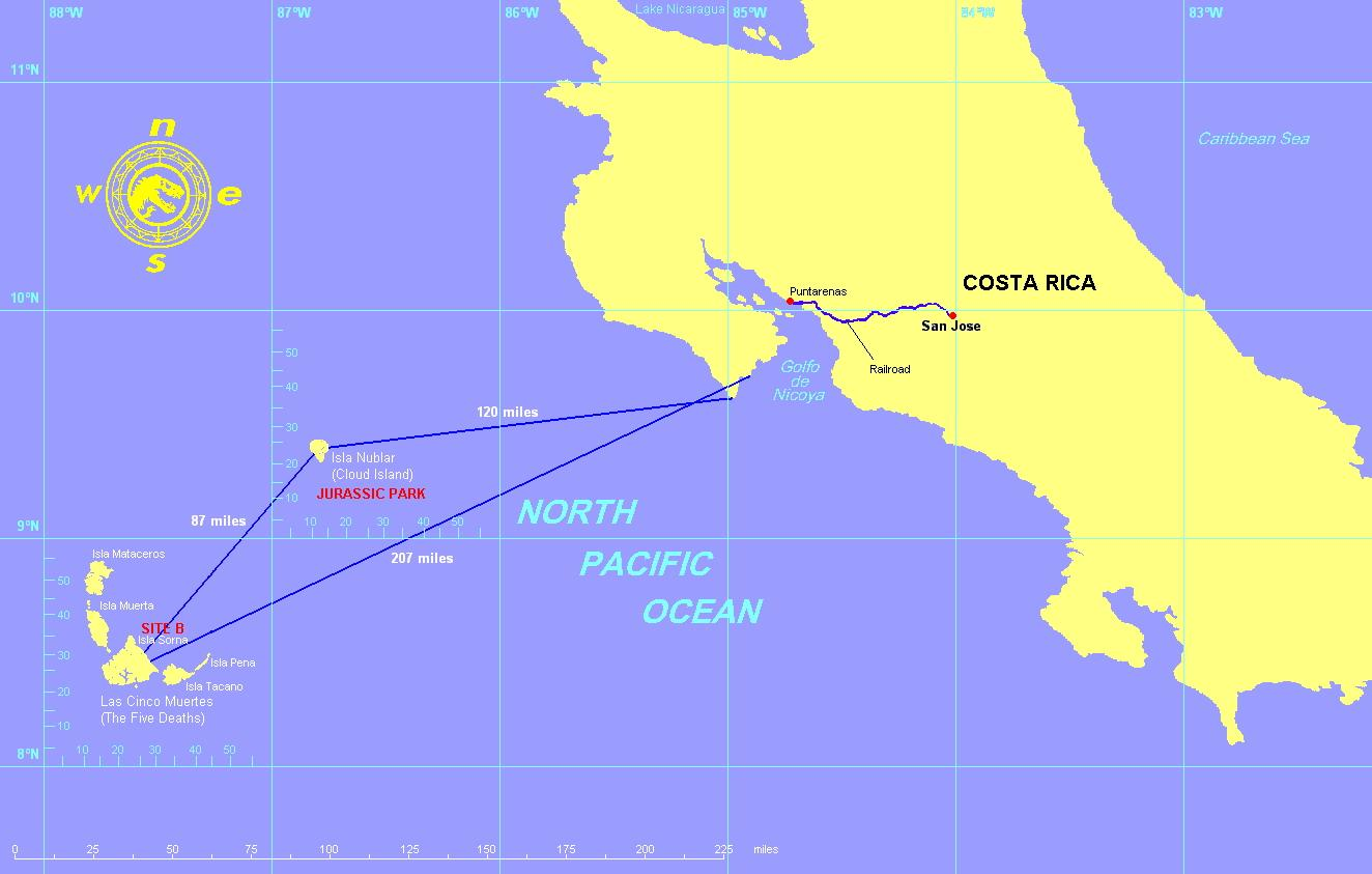 Jurassic Park Islands